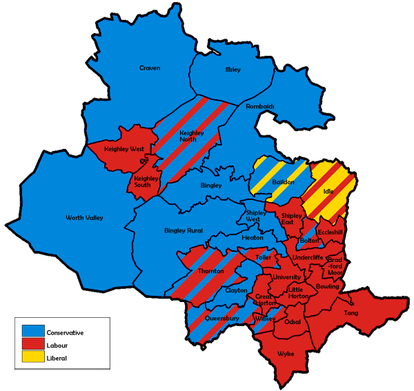 Ward map of Bradford Council with political colouring for the 1980 election. Striped wards denote mixed representation, with larger stripes two seats to one.